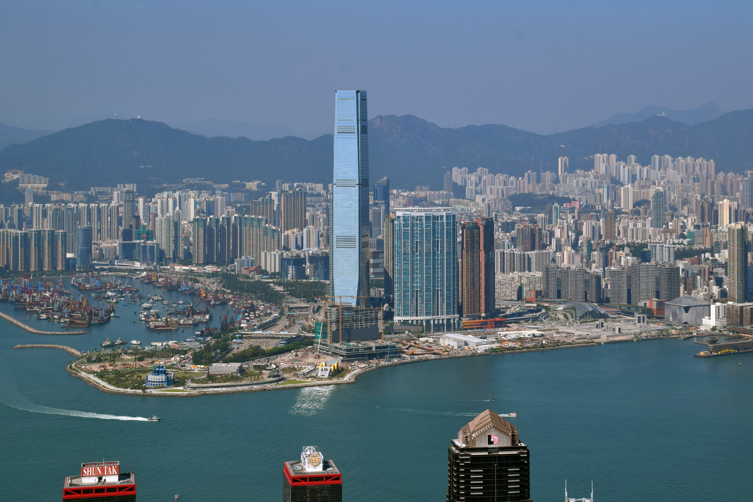 Aerial view of West Kowloon Cultural District (2018-10)